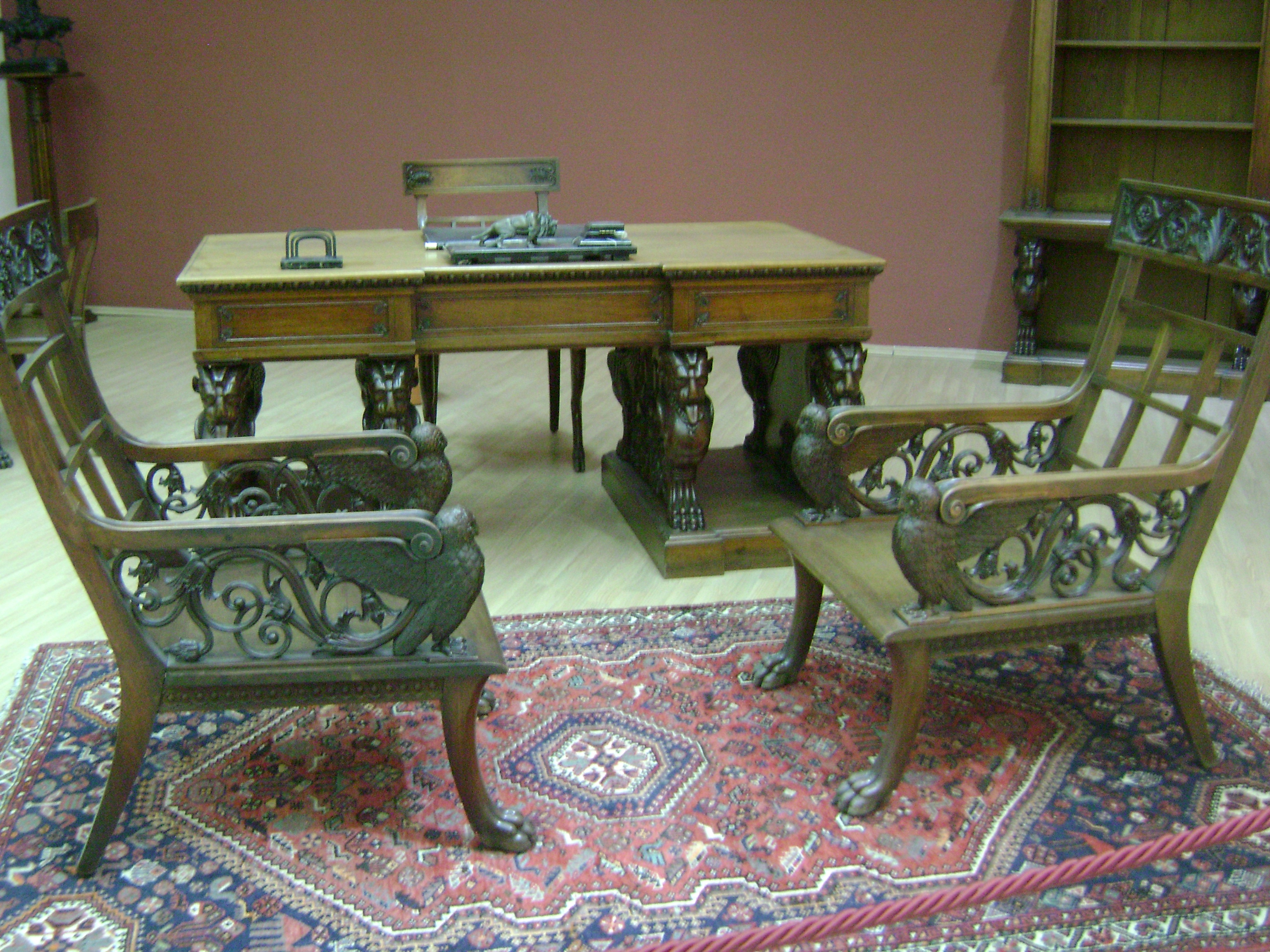 The Heinrich Schliemann office in the Municipal Gallery of Larissa